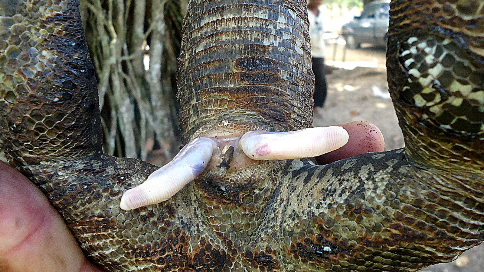 Tupinambis teguixin (Linnaeus, 1758), Teiidae, Atlantic forest, northeastern Bahia, Brazil Photographs by Louro.